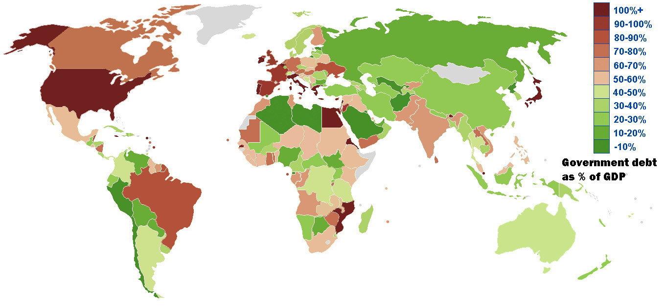 Government gross debt as % of GDP, data by IMF.